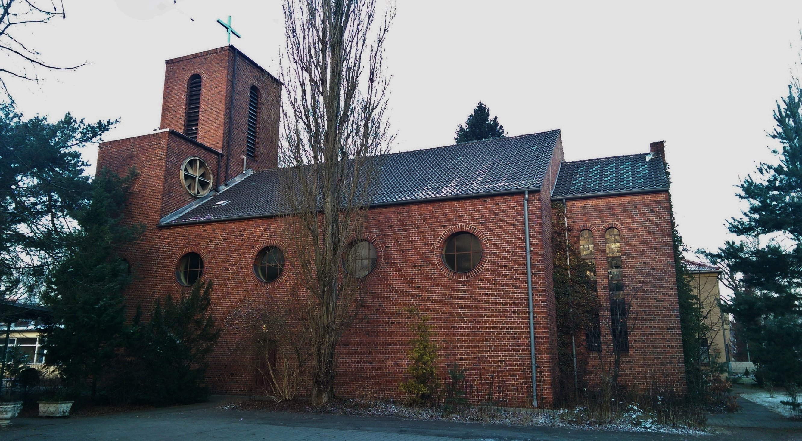 Southern view of Cath. St.Joseph church in Berlin-Tegel. Built 1932-33. Architect Josef Bischof